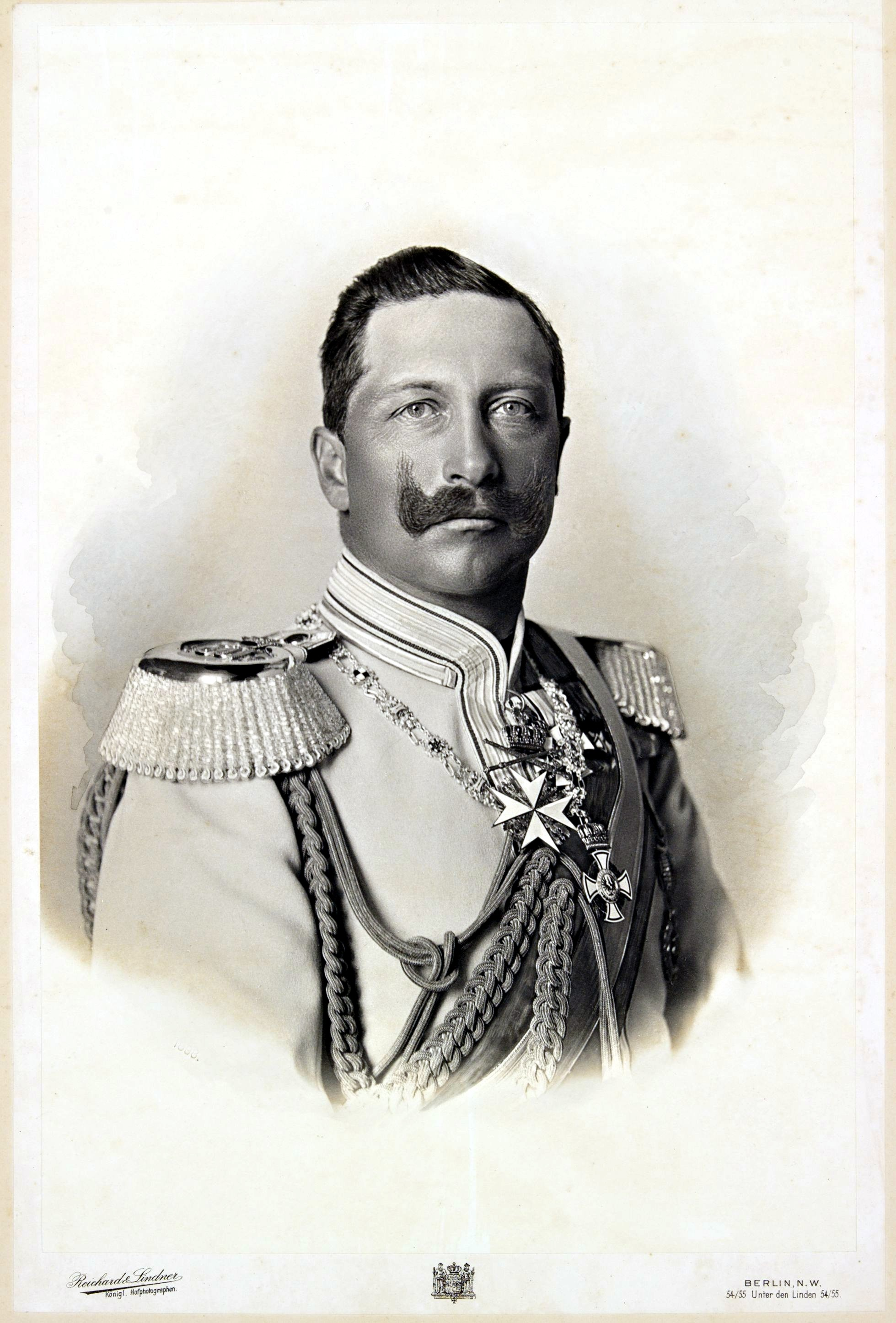 Emperor Wilhelm II in the uniform of the Garde du Corps.Photo pasted on cardboard, with a watercolor edited and vignetted bust portrait of Kaiser Wilhelm II, slightly turned to the right, the head frontally. The Emperor wears the uniform of the Garde du Corps, with braid and epaulets on the shoulders. He wears the chain and the Cross of the Royal House Order of Hohenzollern and the Johanniter cross.